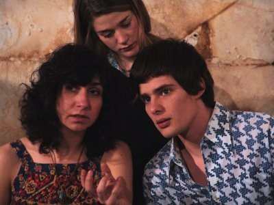 Ma saison super 8